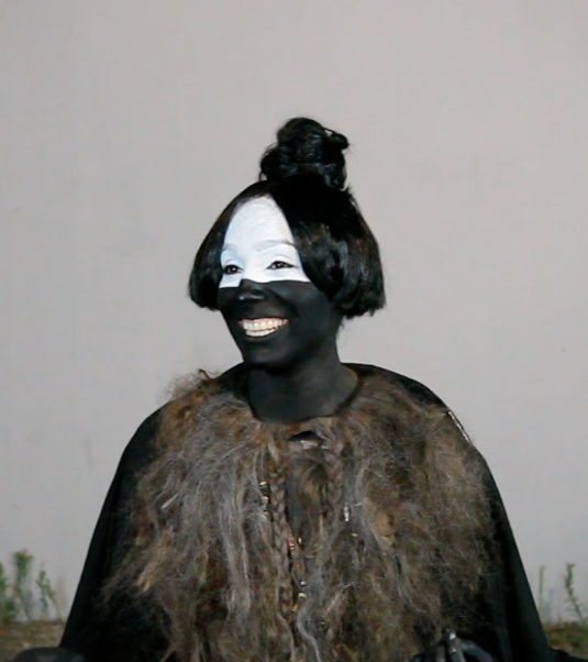 From the shooting of "Slippin Around" picture taken by Makode Linde, 2011 in LA, CA